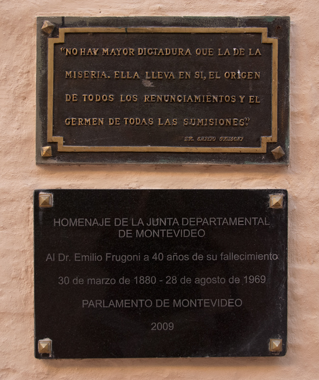 Tribute to the Departmental Board of Montevideo, Dr. Emilio Frugoni.